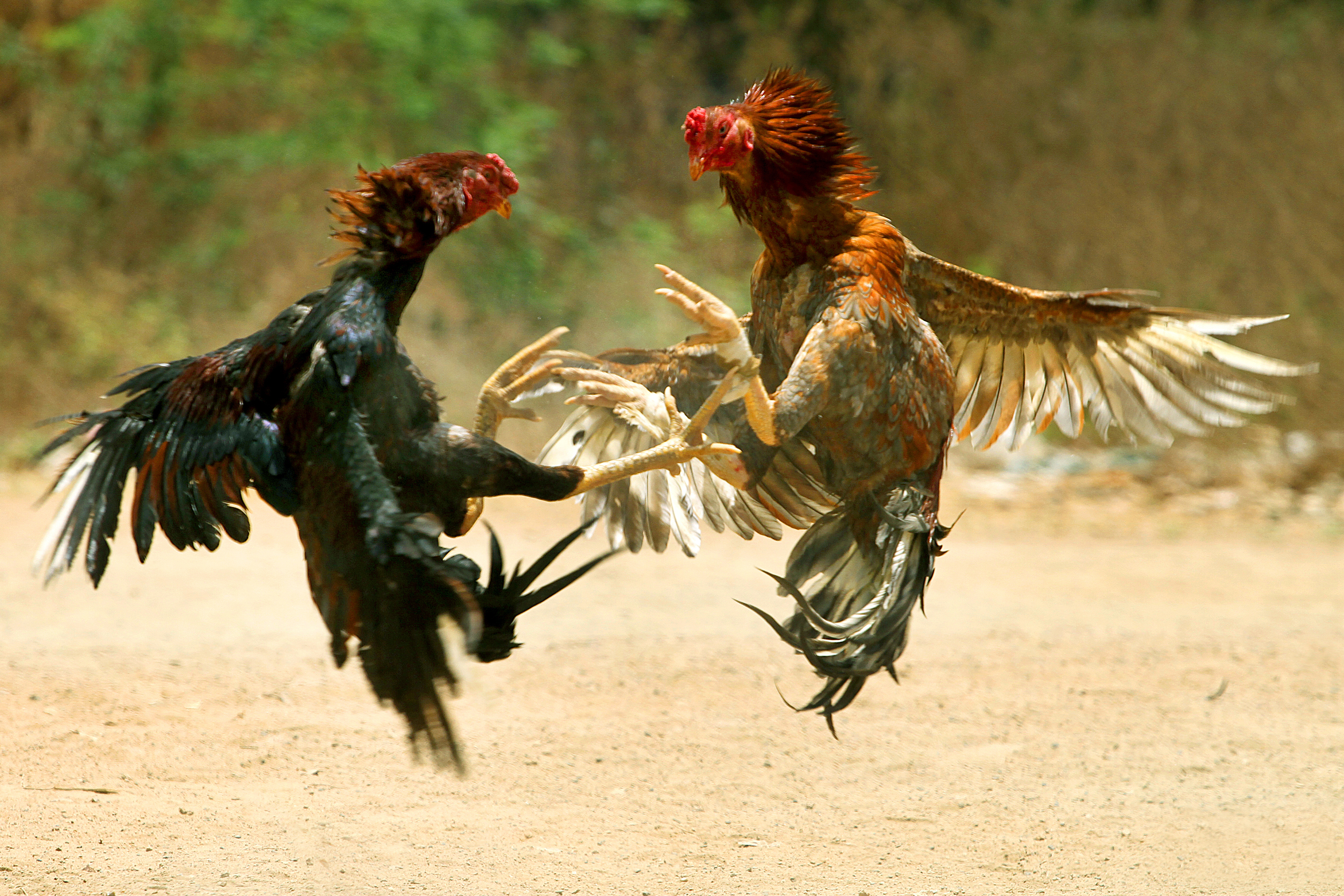 Rooster/Cock Fighting - A traditional sport in Tamil Nadu, India